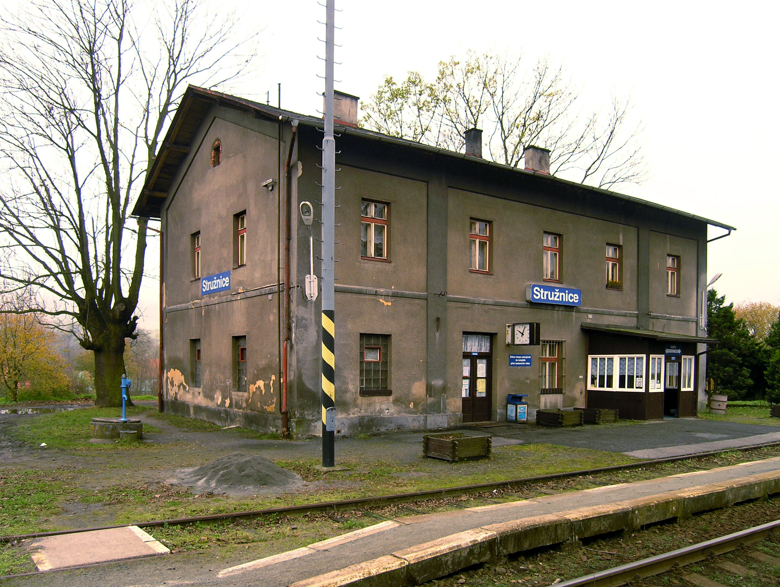 Railway station in Stružnice village, Czech Republic